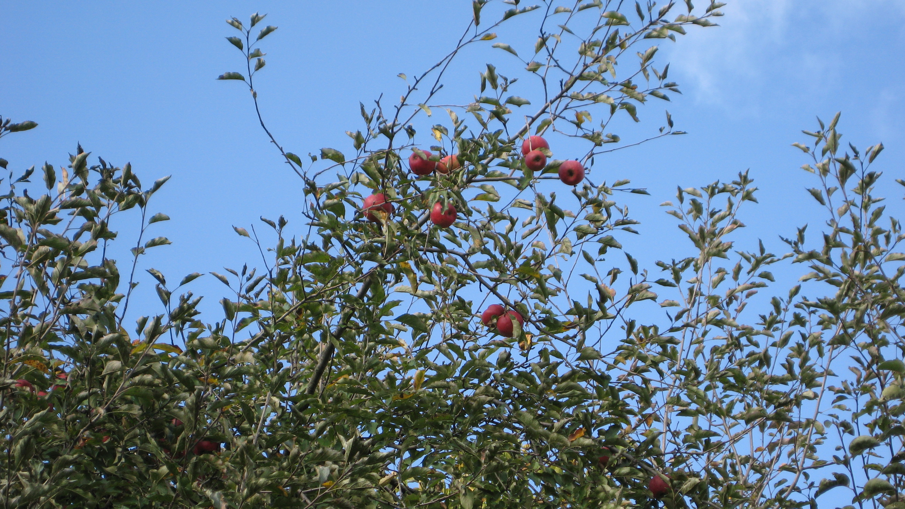 Apples Jonathan on the tree.